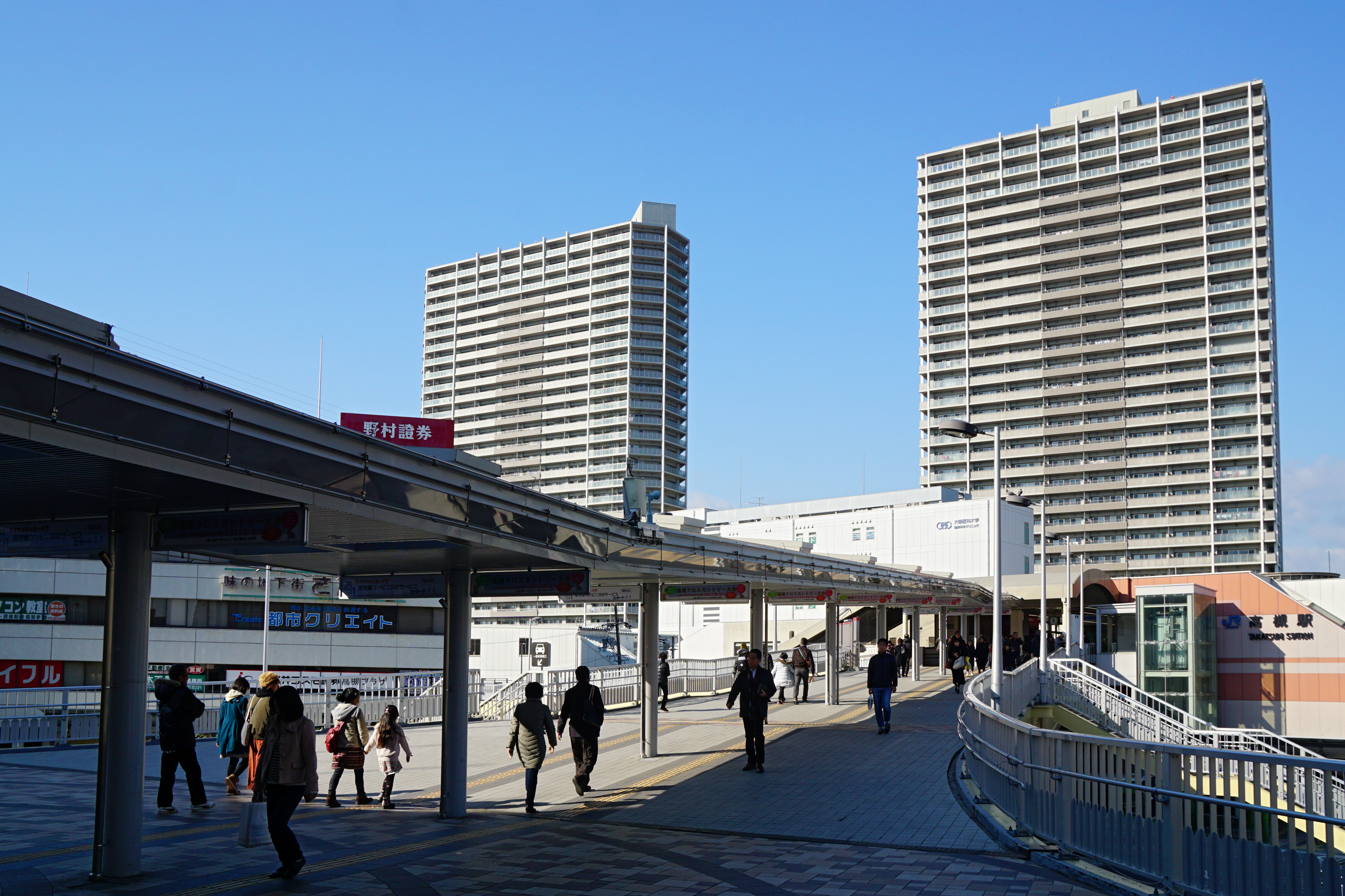 Takatsuki Station, Takatsuki, Osaka prefecture, Japan.